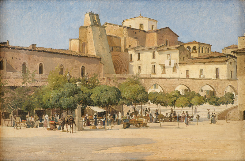 Torvet i Sulmona (The square in Sulmona), oil painting by Edvard Petersen